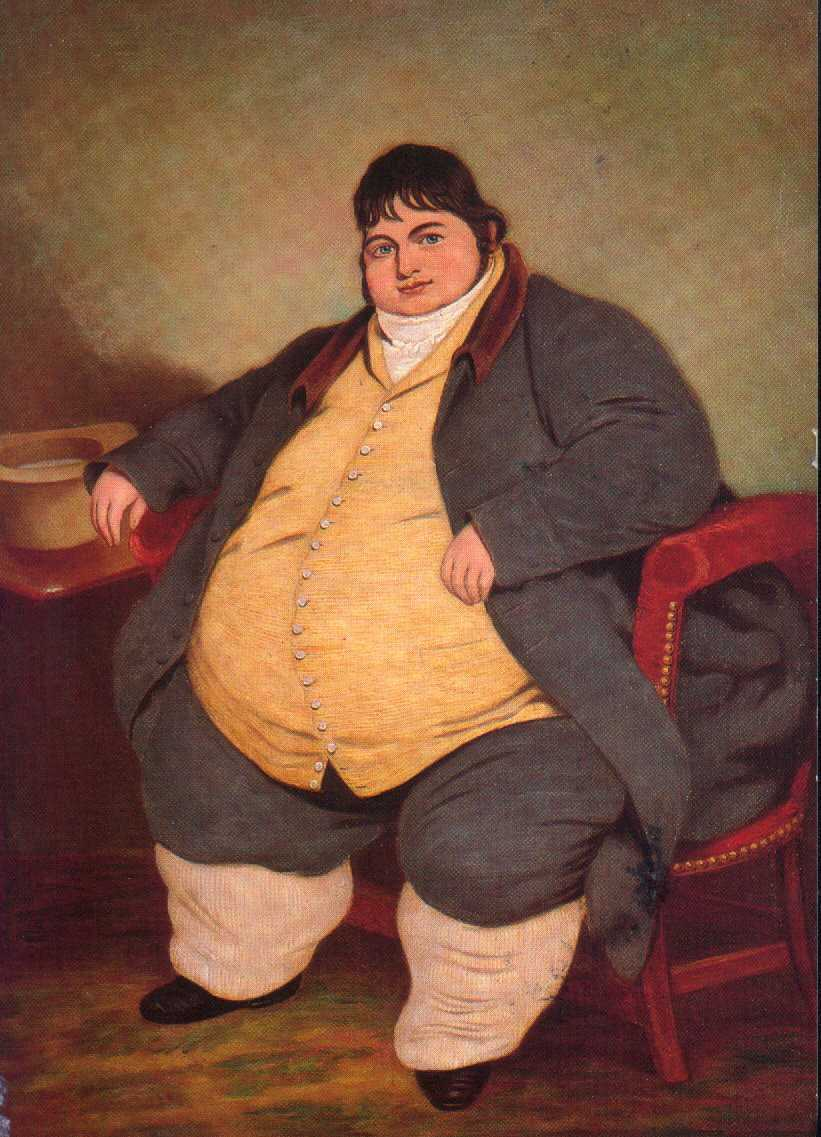 Daniel Lambert